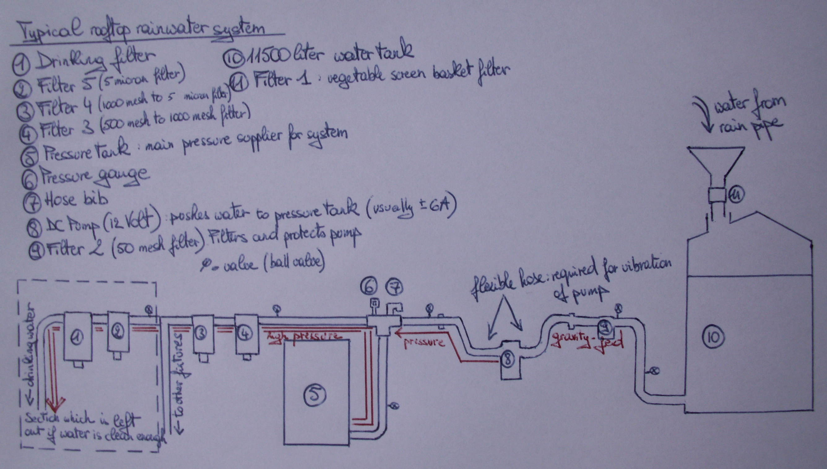 A schematic of a regularly set-up rooftop rainwater harvesting system. Schematic was based on a drawing from the book "Earthship Volume 2:Systems and components" by Michael Reynolds